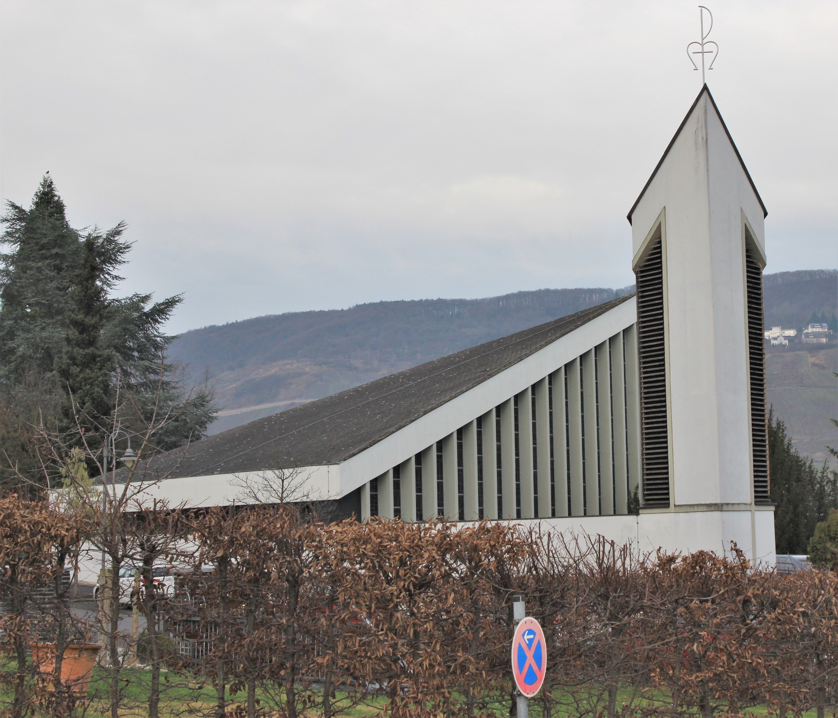 Former church of St. Mary's in Bernkastel-Kues (Germany)